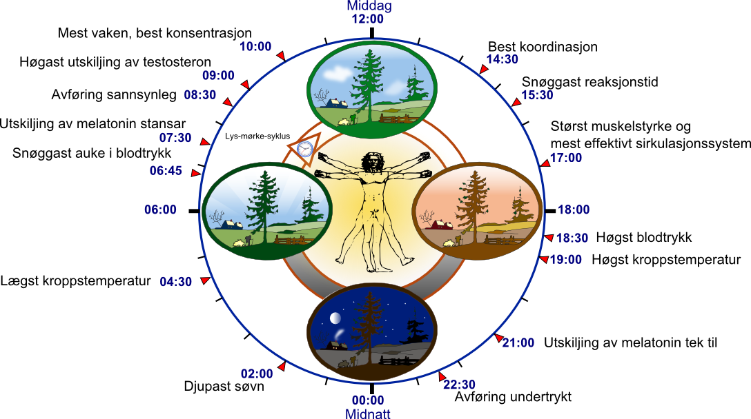 Norwegian (nynorsk) version of Image:Biological clock human.PNG, derived from Image:Biological clock human.svg